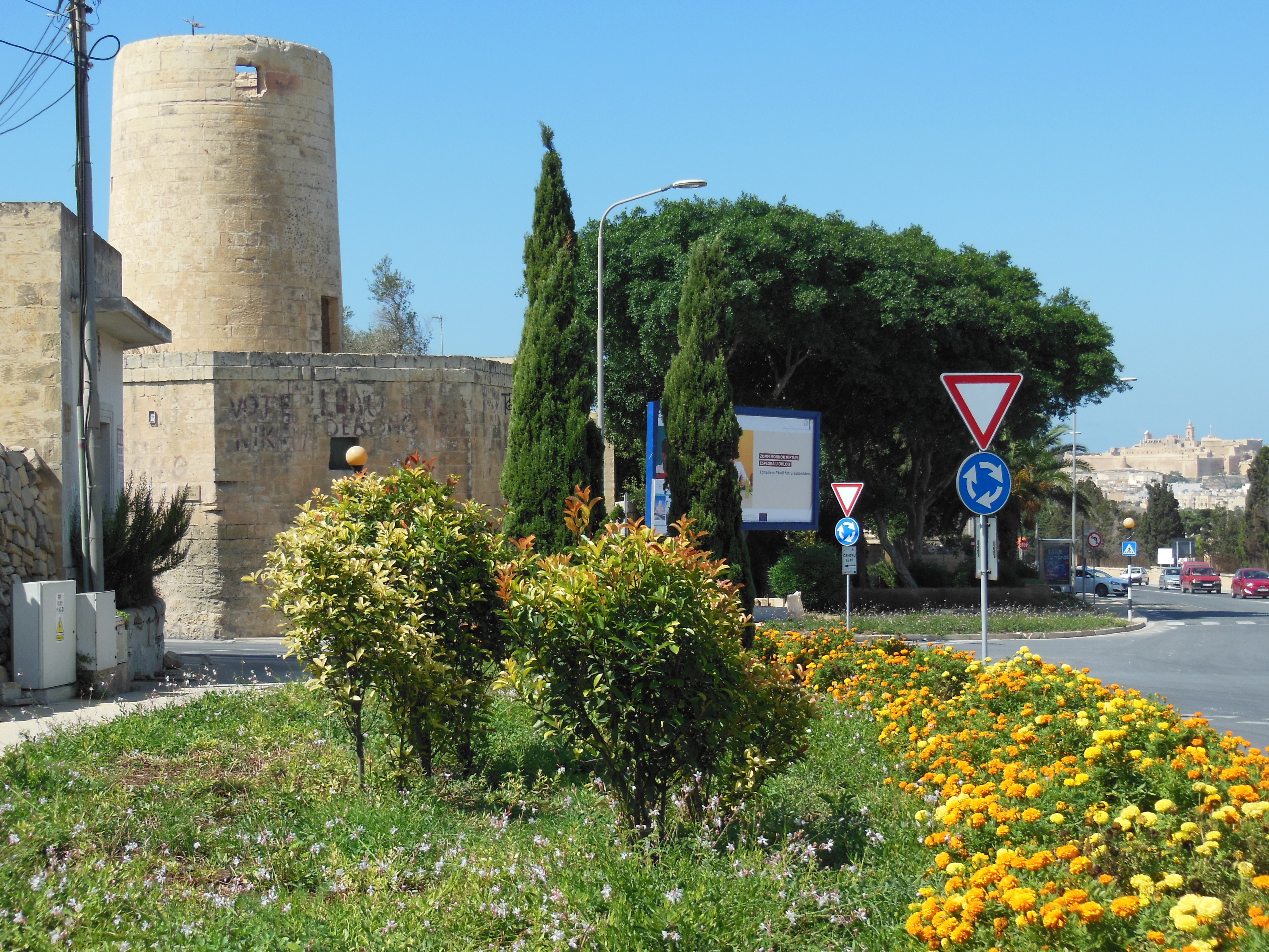 Xewkija Windmill with Side Street Garden.